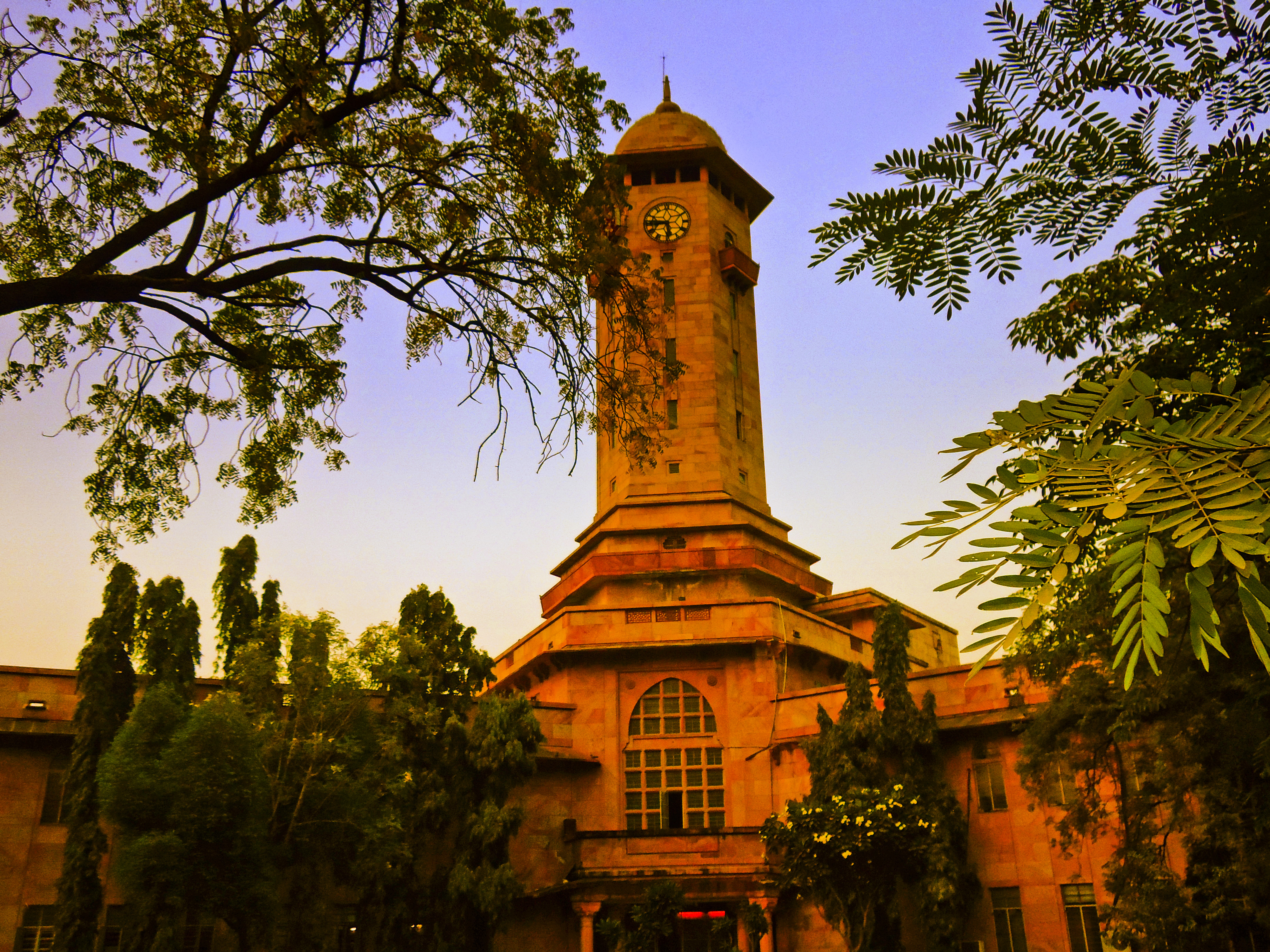 university tower at guj. uni.